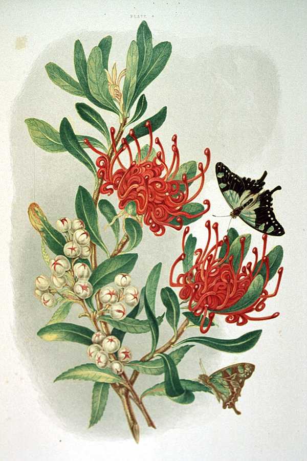 Waratah and Native Arbutus